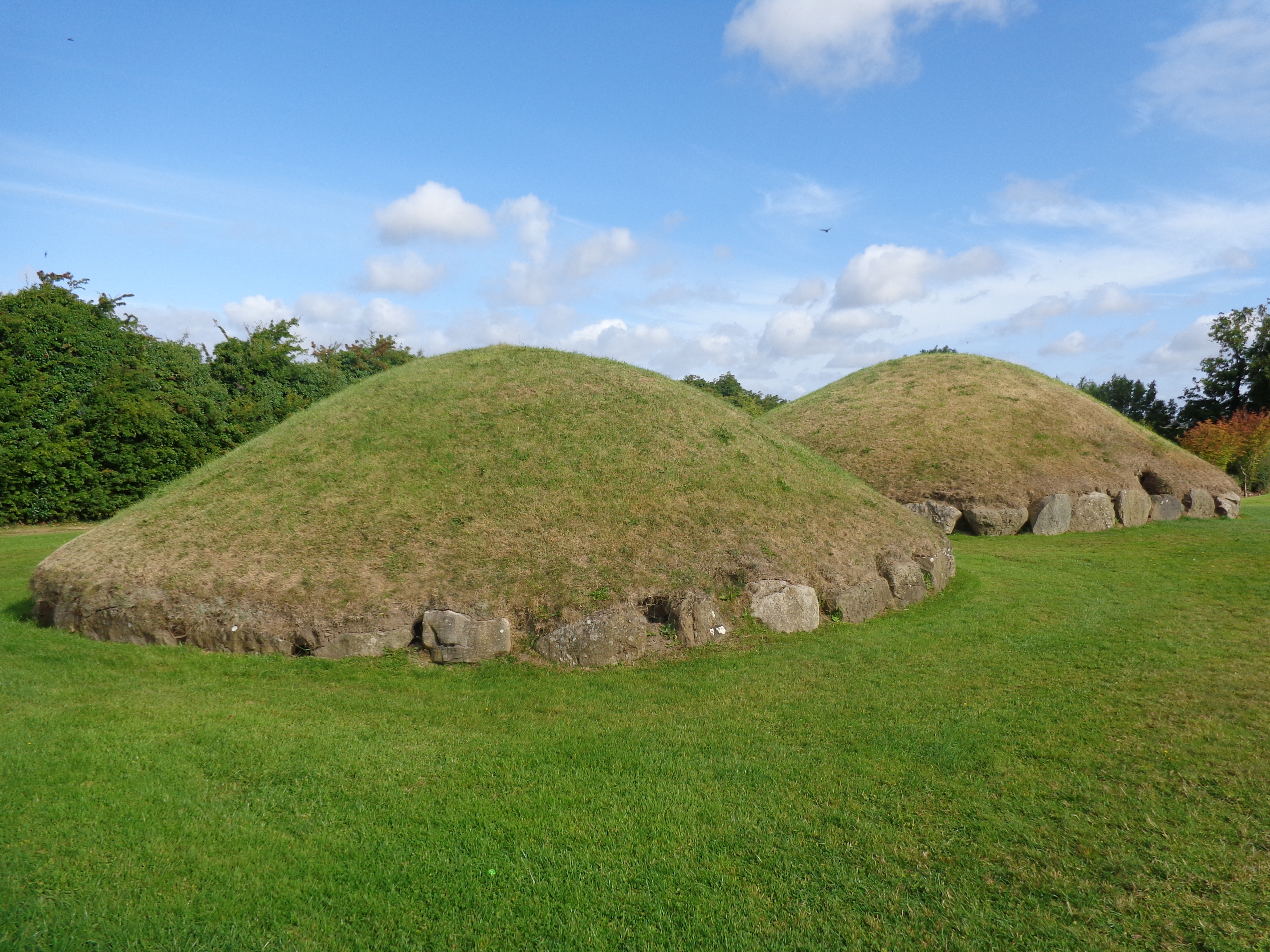 Knowth